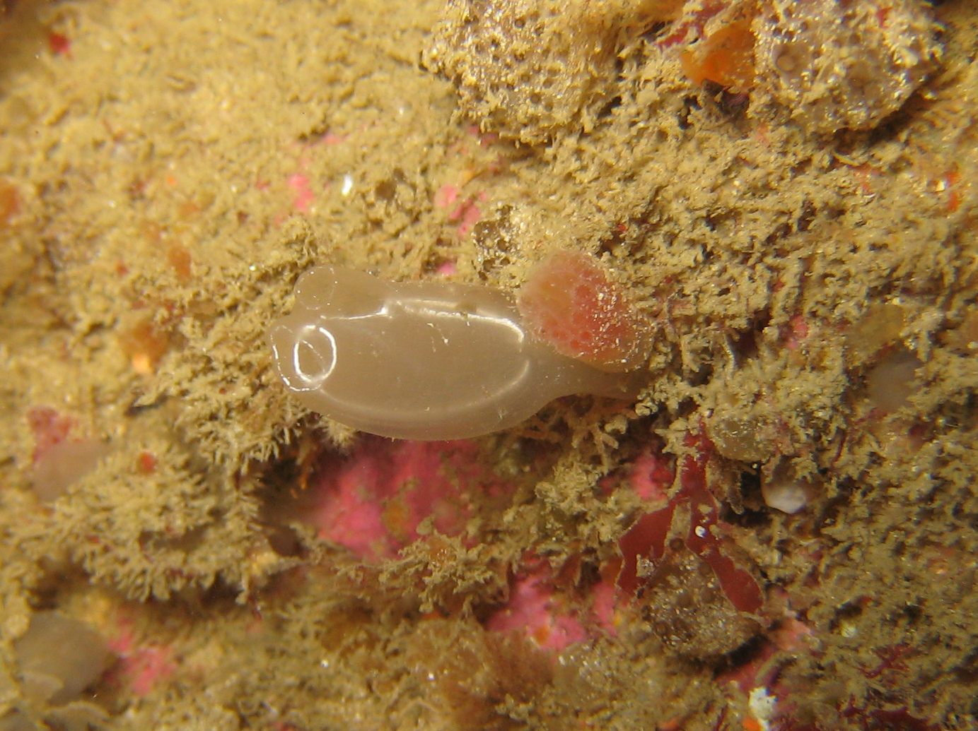 Aplidium punctums and a first polyp of a Diazona violacea colony in Carantec.